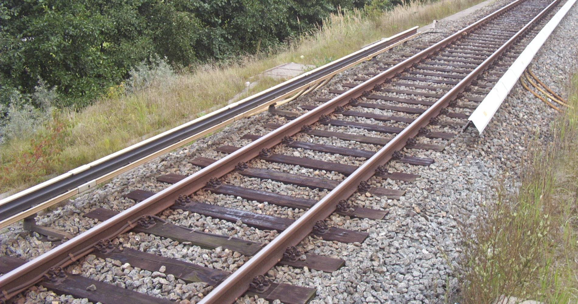 Third rail of suburban railway in Hamburg, Germany (1200 volts).